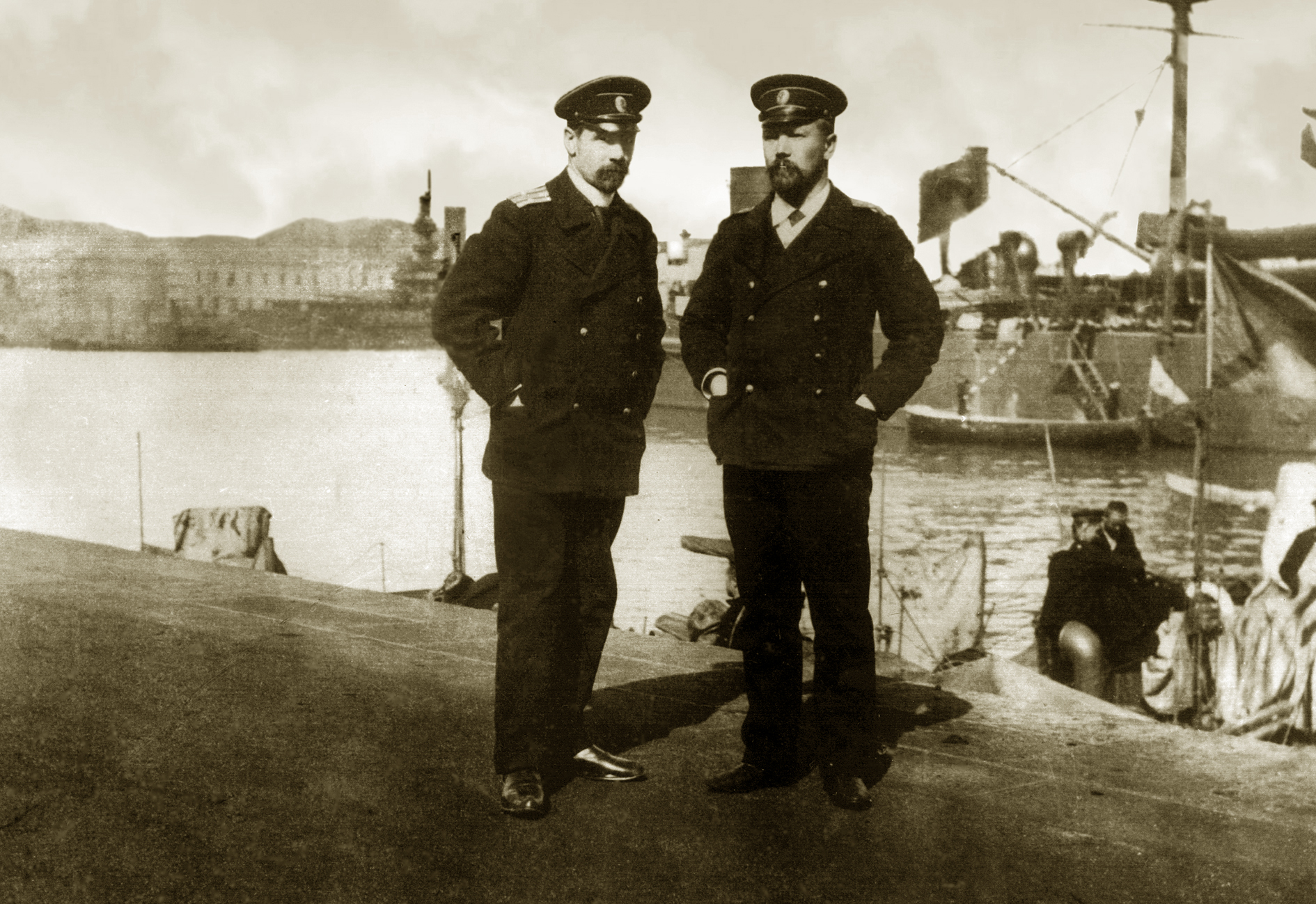 Konstantin and Maximilian v. Schullz